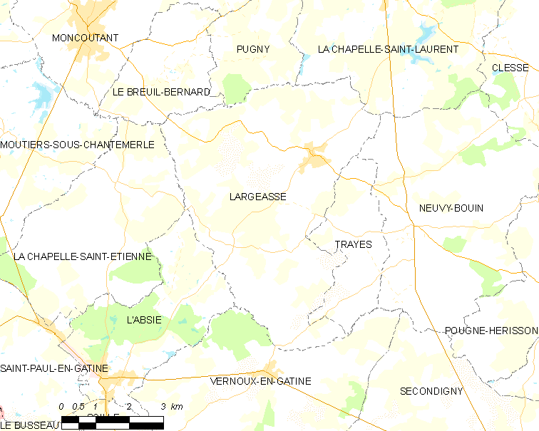 Map of French municipality Largeasse